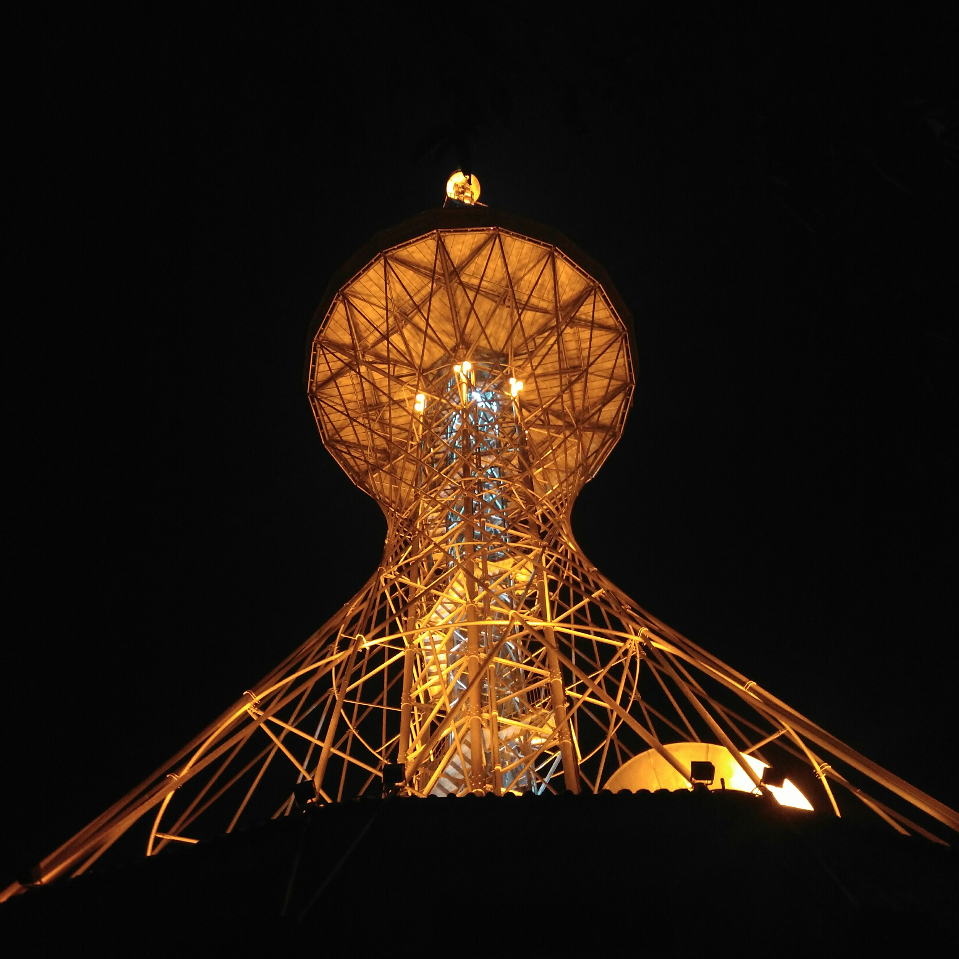 Night view of Heyuan TV Tower